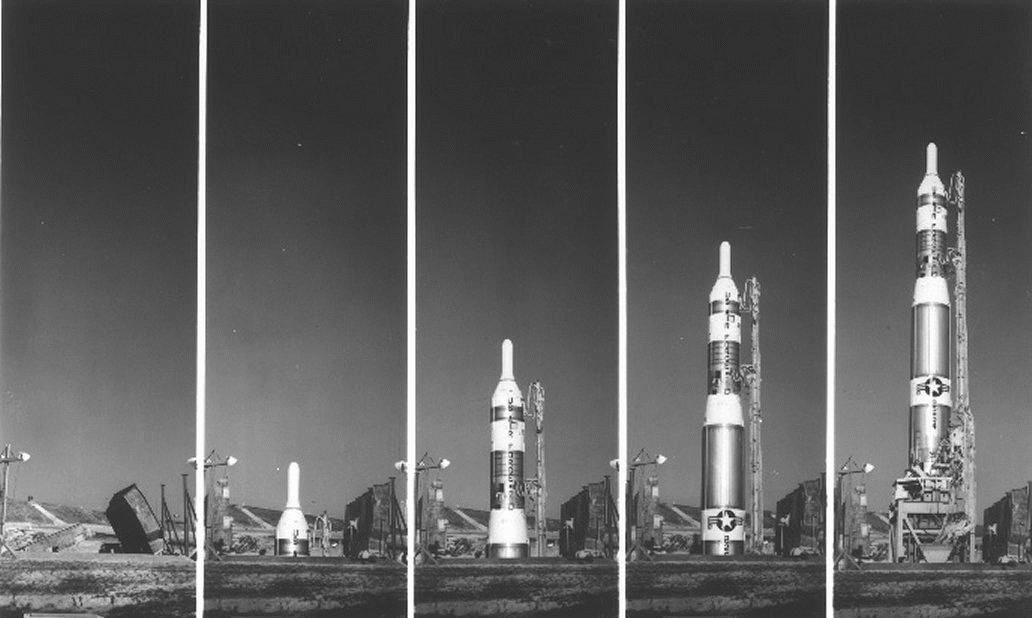 A Titan I missile emerges from its silo at Vandenberg's Operational System Test Facility in 1960. The Titan I was stored and fueled in a hardened underground silo, but an elevator had to lift it out of the silo before it could be launched. The entire launch sequence took about 15 minutes.